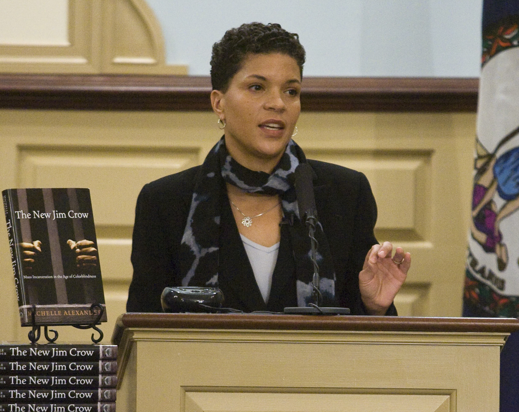 Michelle Alexander speaks at the Miller Center Forum, December 3, 2011.